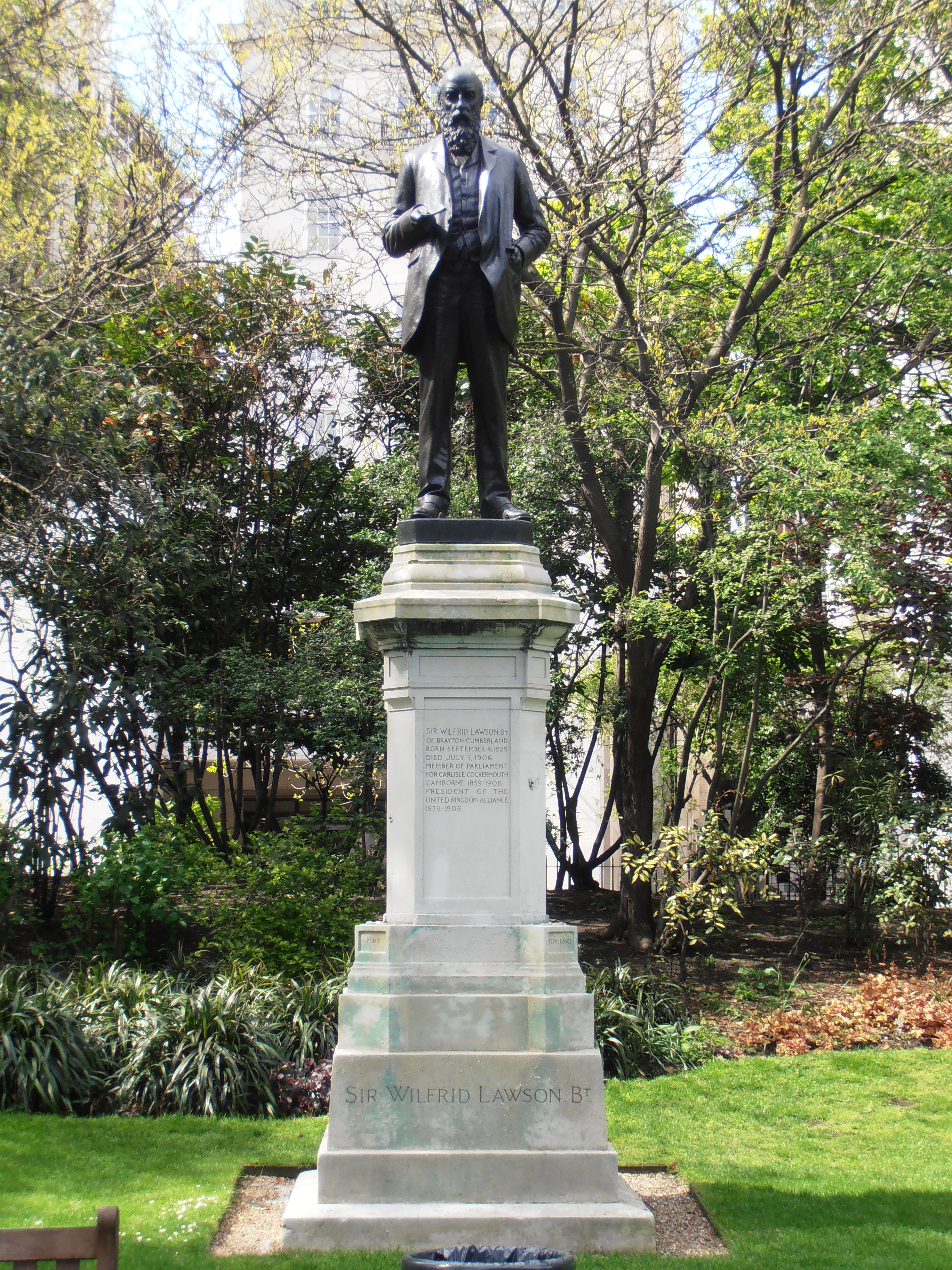 Statue of Sir Wilfrid Lawson, 2nd Baronet, of Brayton (1909) by David McGill, Victoria Embankment Gardens, London